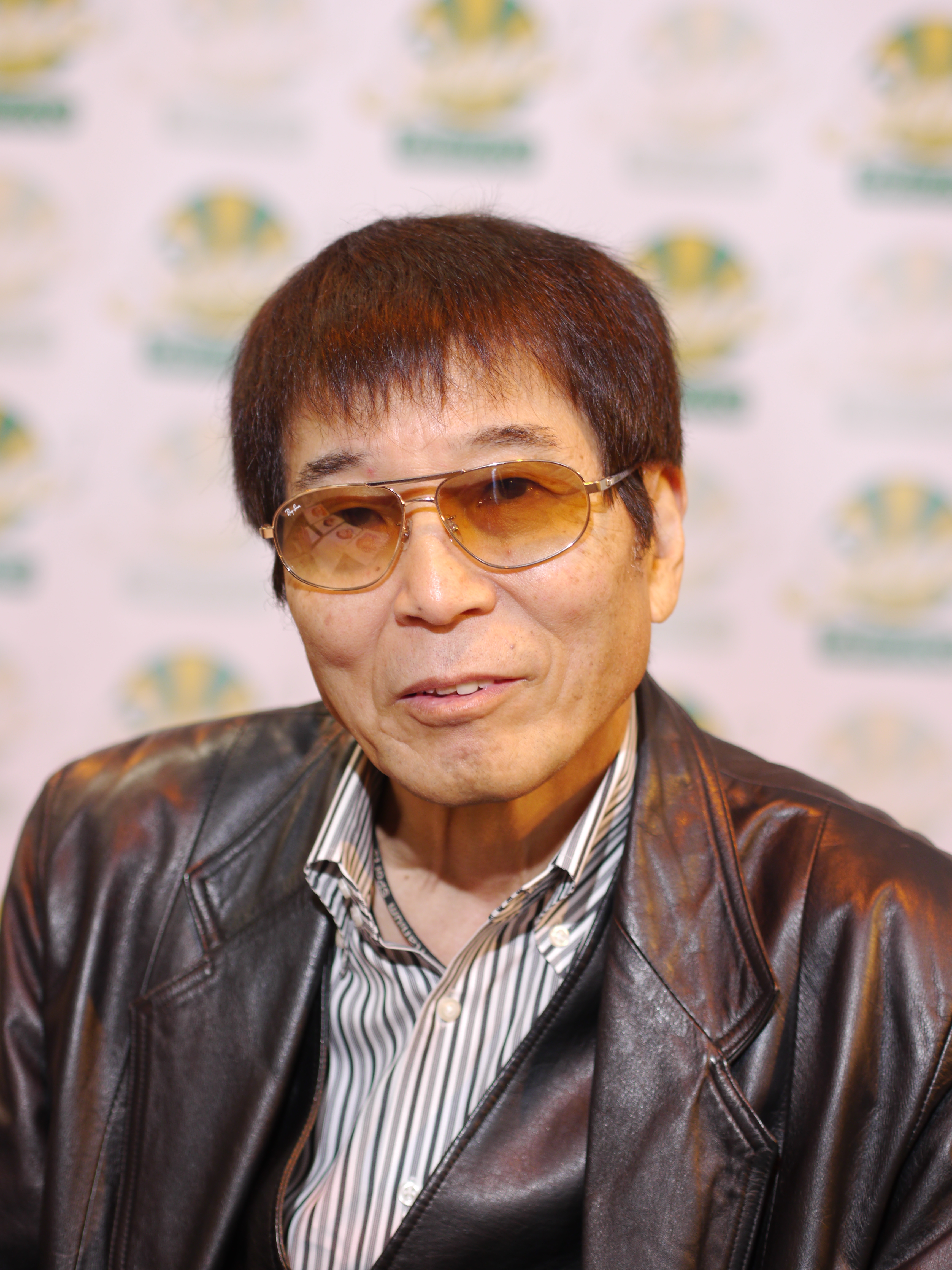 Japan Expo Festival, 4th edition, 2012